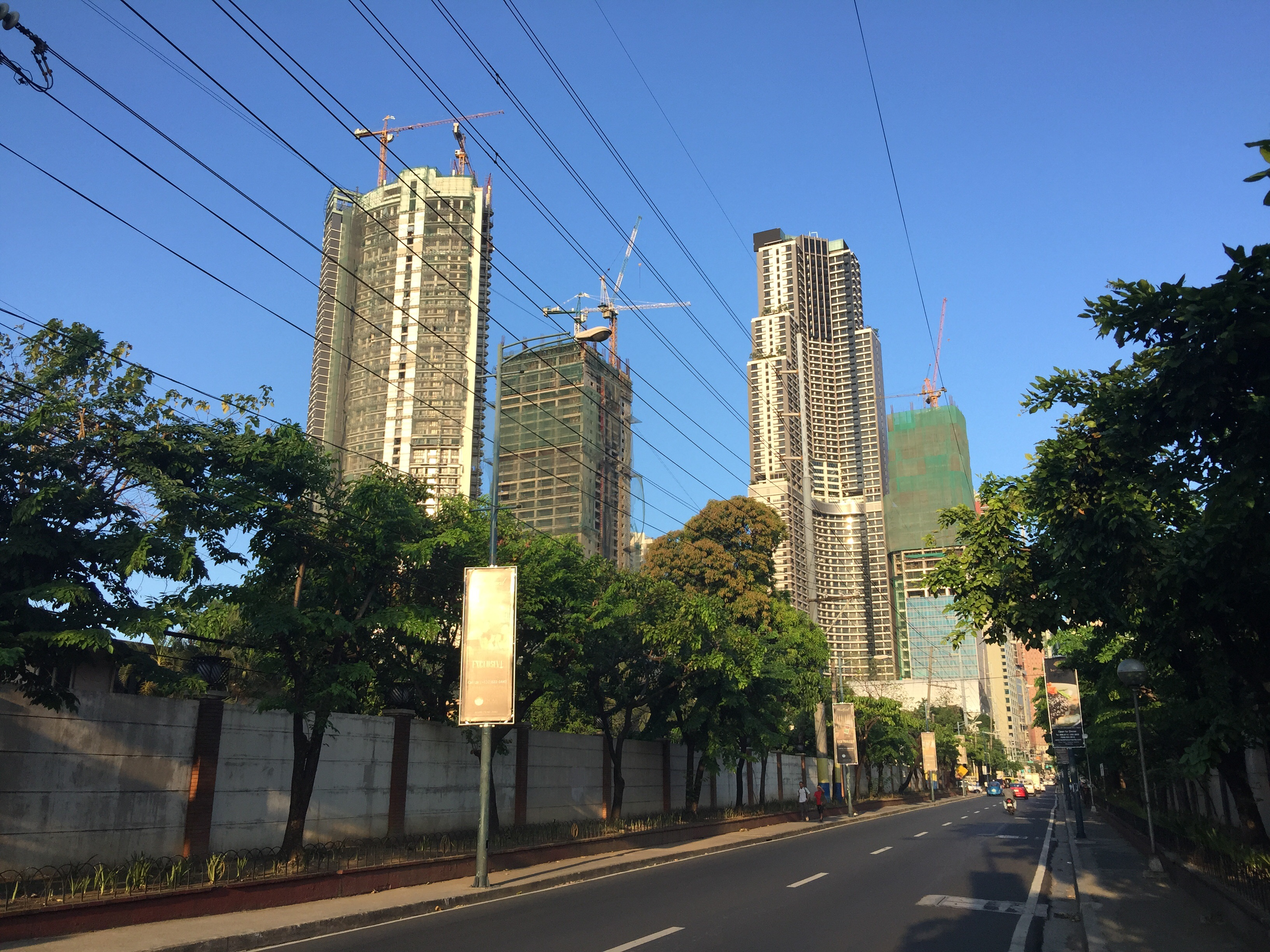 The rising skyline of Century City in Makati, Metro Manila as seen from Kalayaan Avenue and Nicanor Garcia Street, Bel Air Village